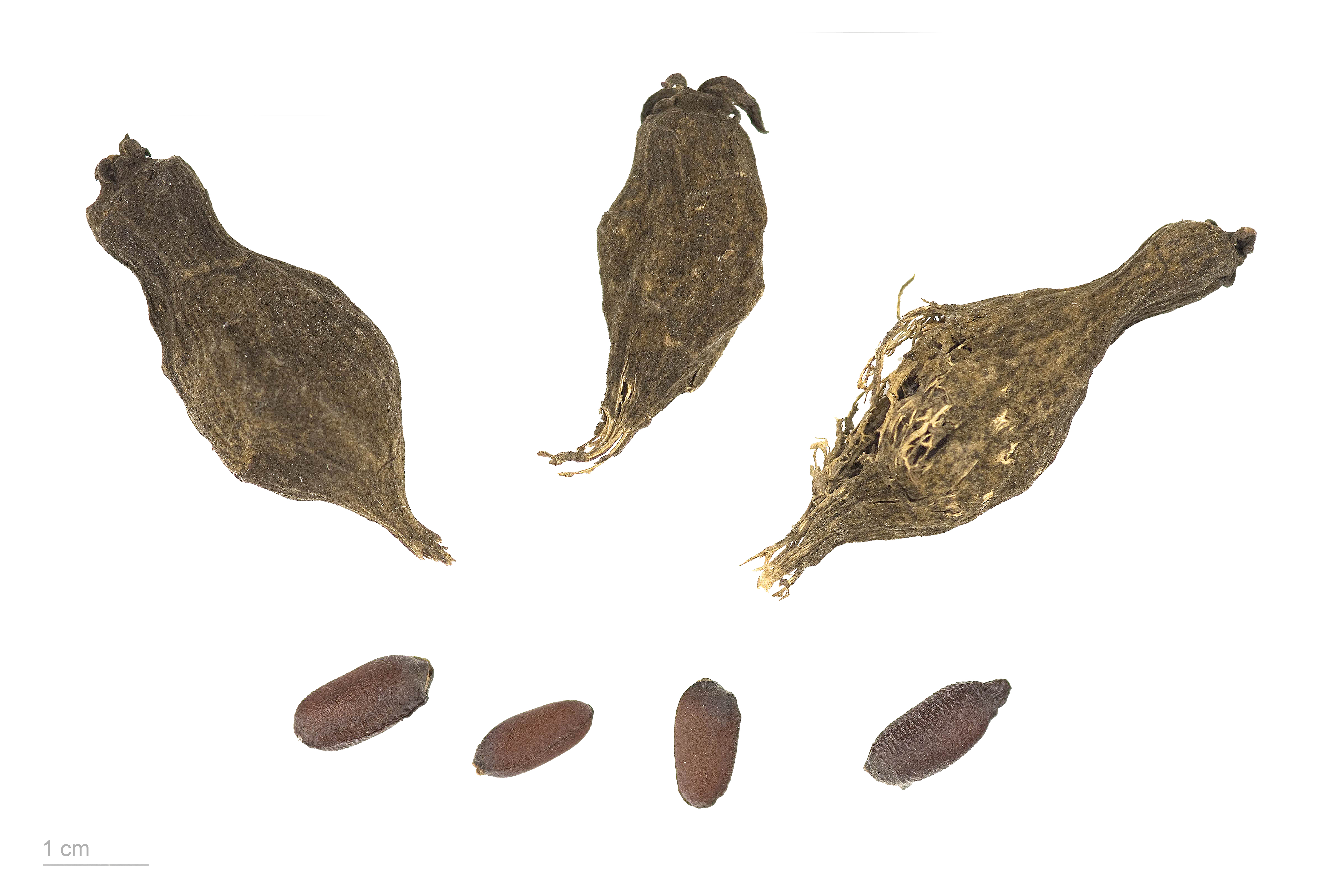 wintersweet, fruits and seeds